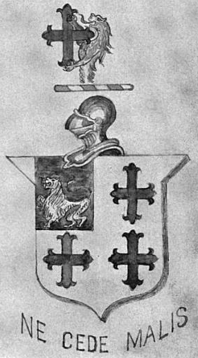 Coat of arms of the Chase family.